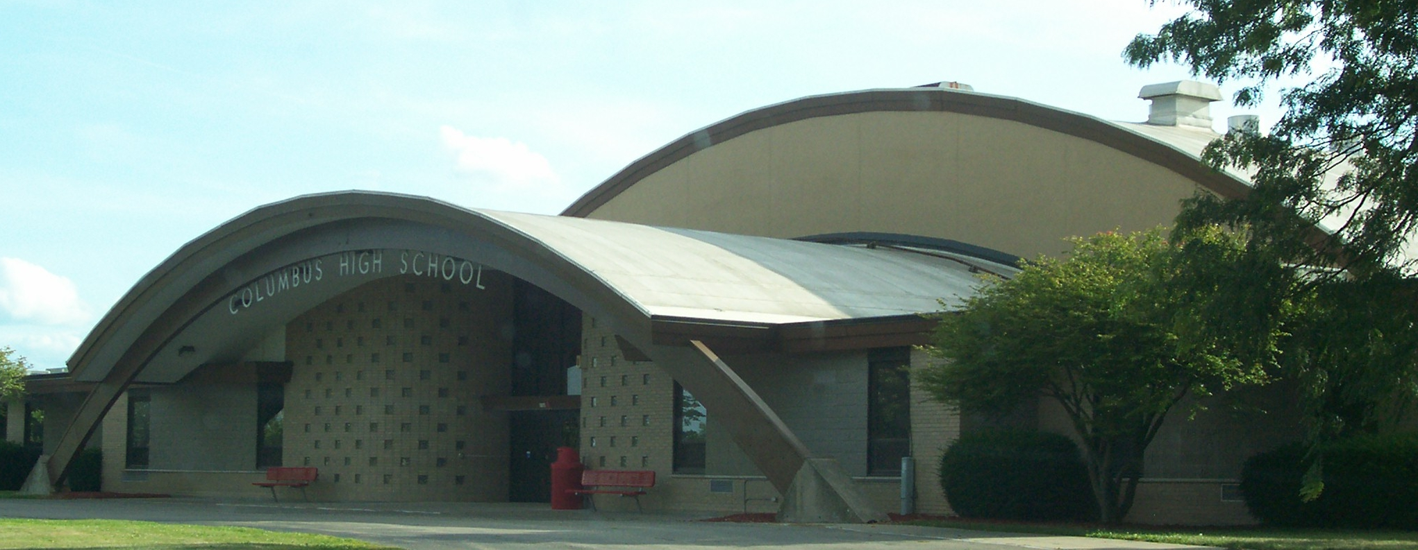 Looking at Columbus High School in Columbus, Wisconsin(USA)